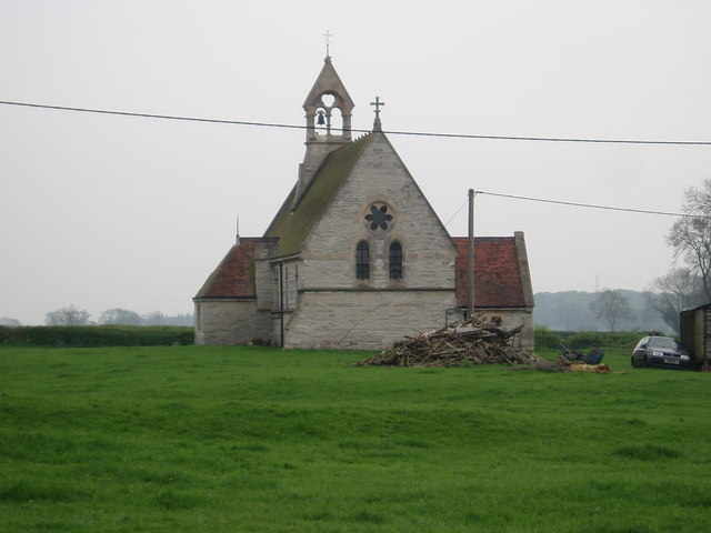 Moorhouse - St Nicholas Chapel. Chantry chapel, built 1861, Chapelry to the Parish of Laxton